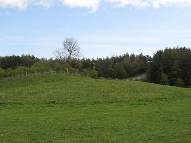 (The site of) Turret 21b (Fence Burn) The Military Road (B6318) cuts through the mound that is the site of the turret. {Source: "Handbook to the Roman Wall" (14th Edition) by J Collingwood Bruce.}